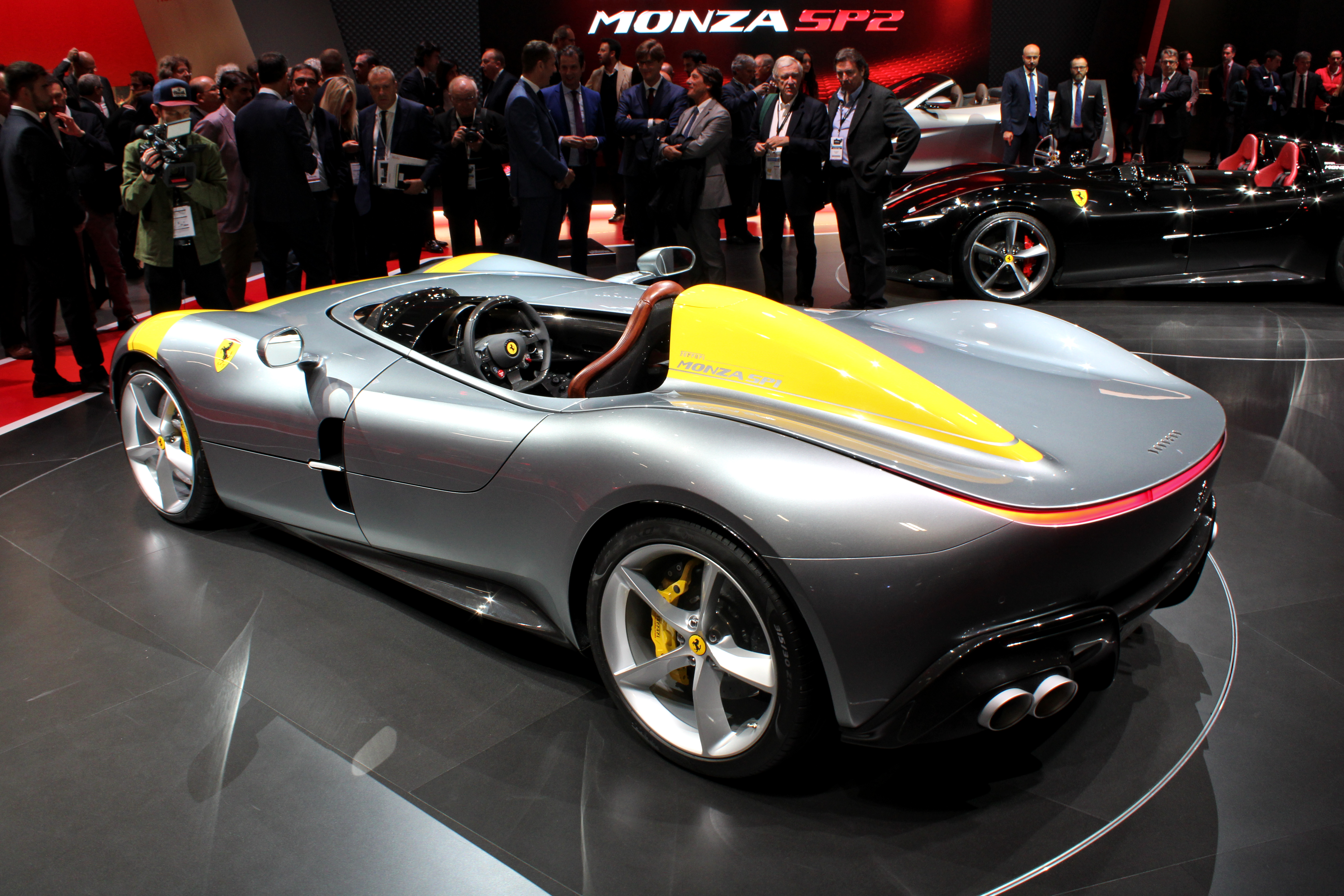 Ferrari Monza SP1 at Paris Motor Show 2018